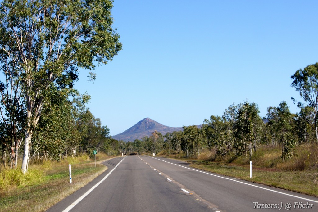 Queensland trip 2011